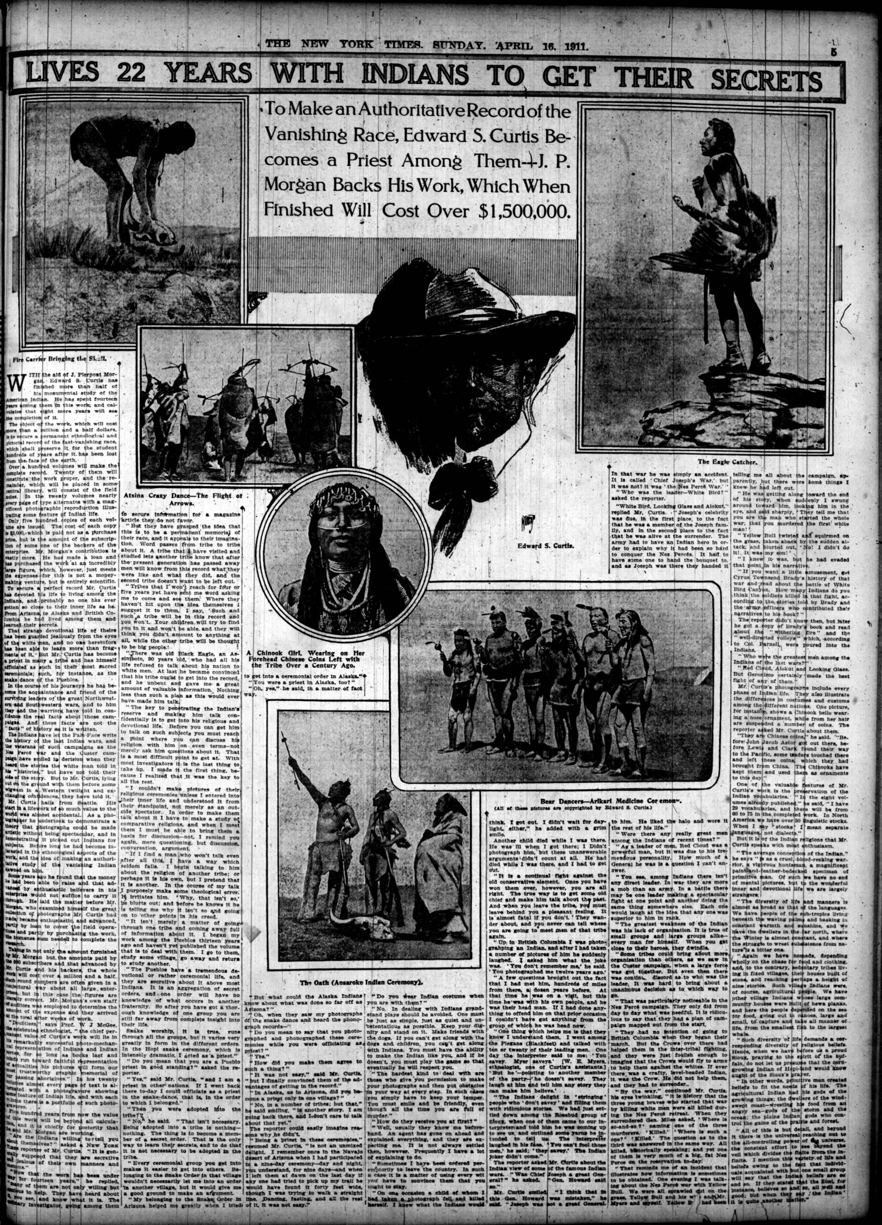 Edward Sheriff Curtis in the New York Times on April 16, 1911